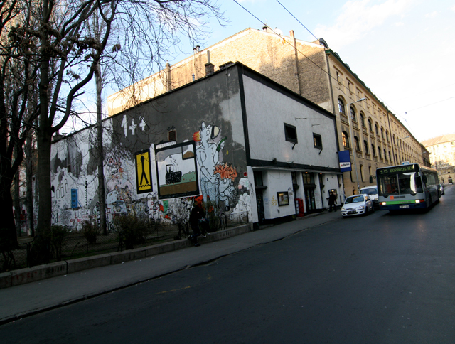 The Kultiplex, an underground club in Budapest. The Building were demolished few days later.